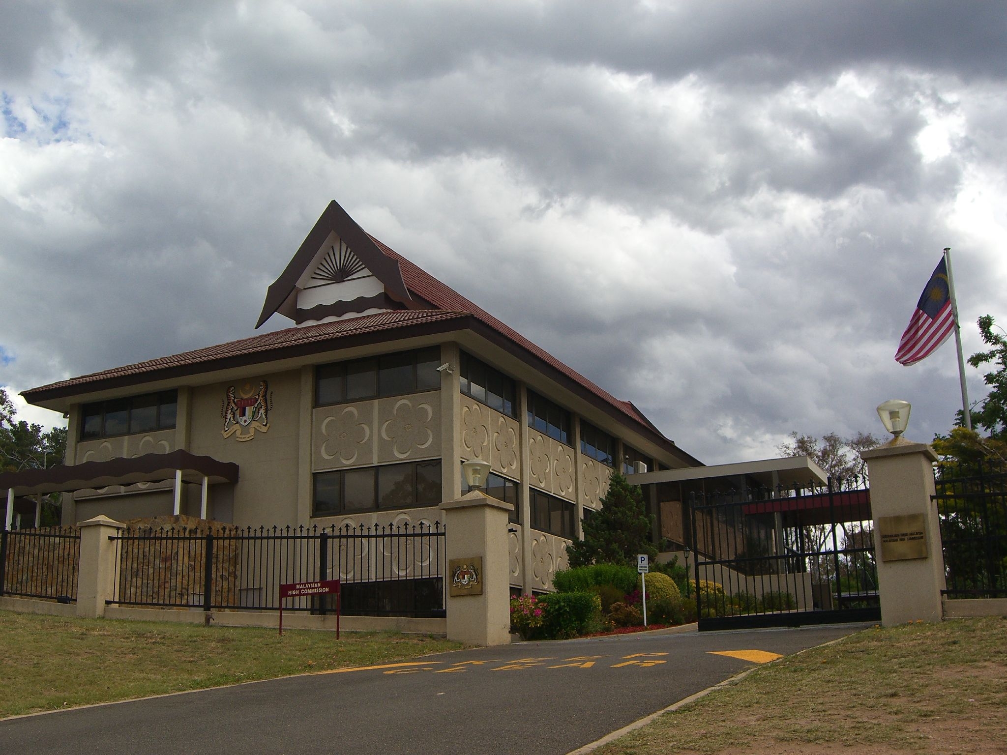 High Commision of Malaysia in Australia